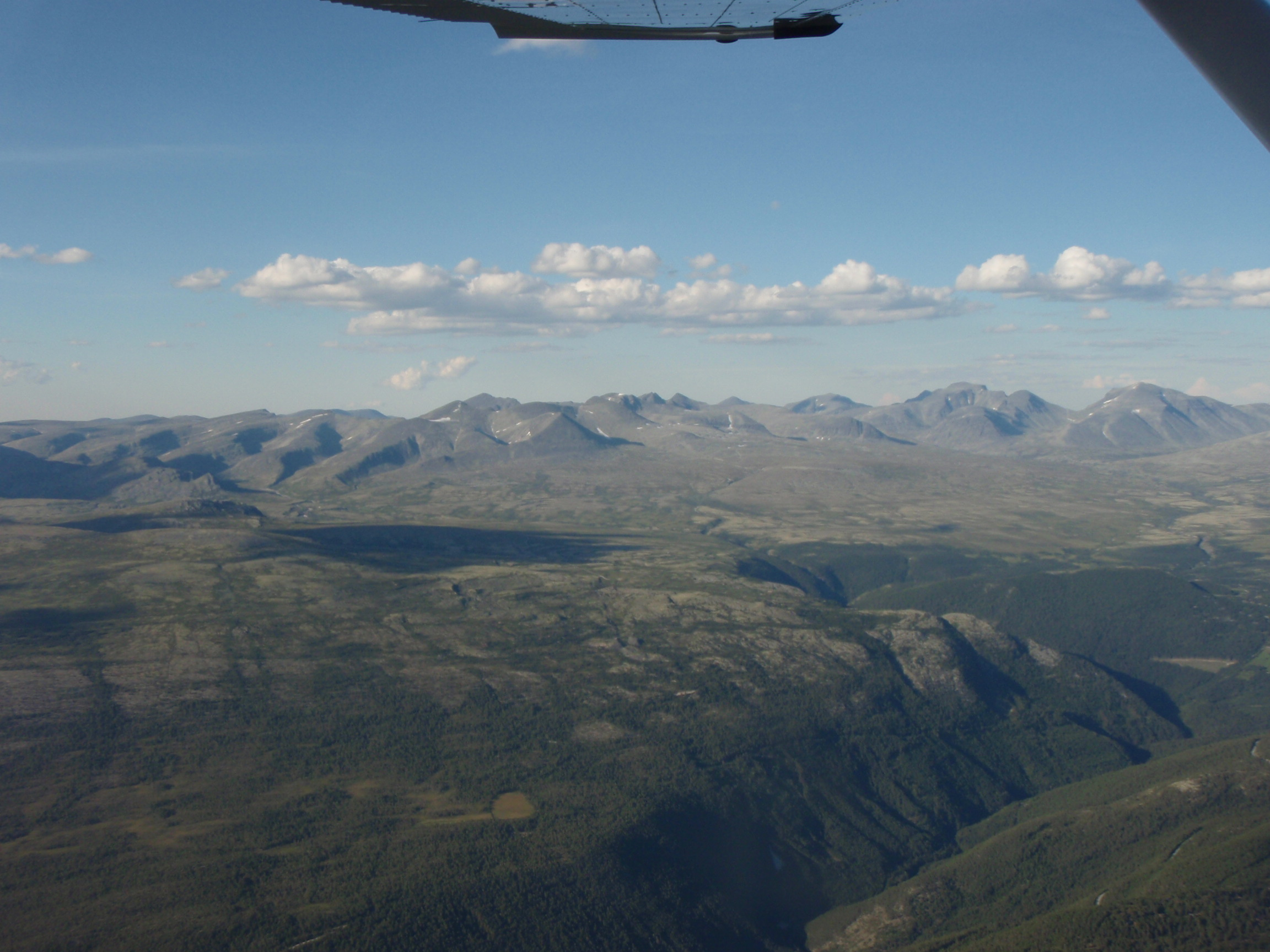 Wiew of the Rondane mountains from the southwest in evening sun.